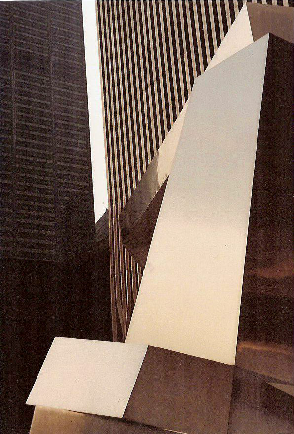 Photograph of a detail of the statue 'The Ideogram' at the old World Trade Center.